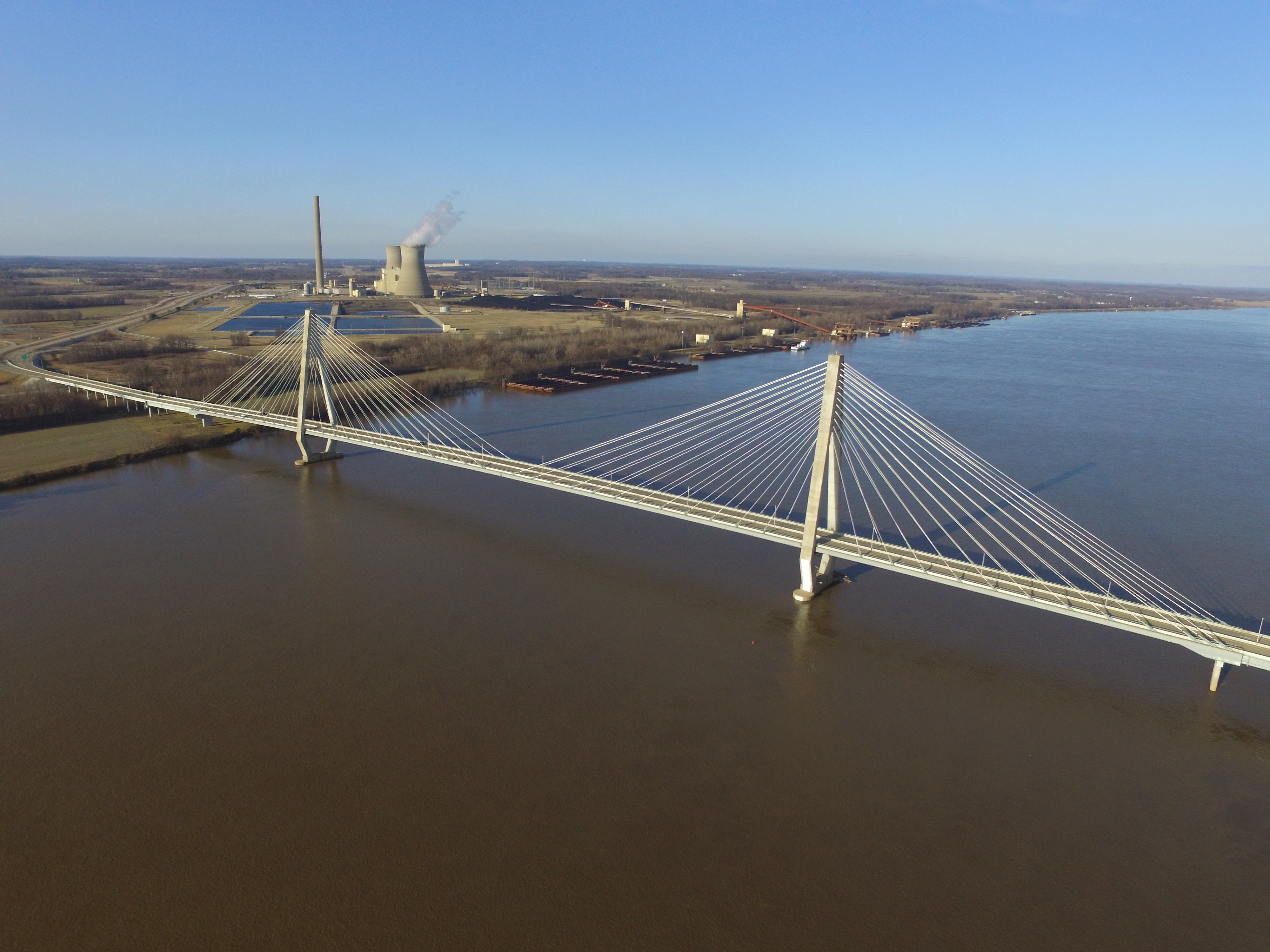 US 231 Natcher Bridge facing up river